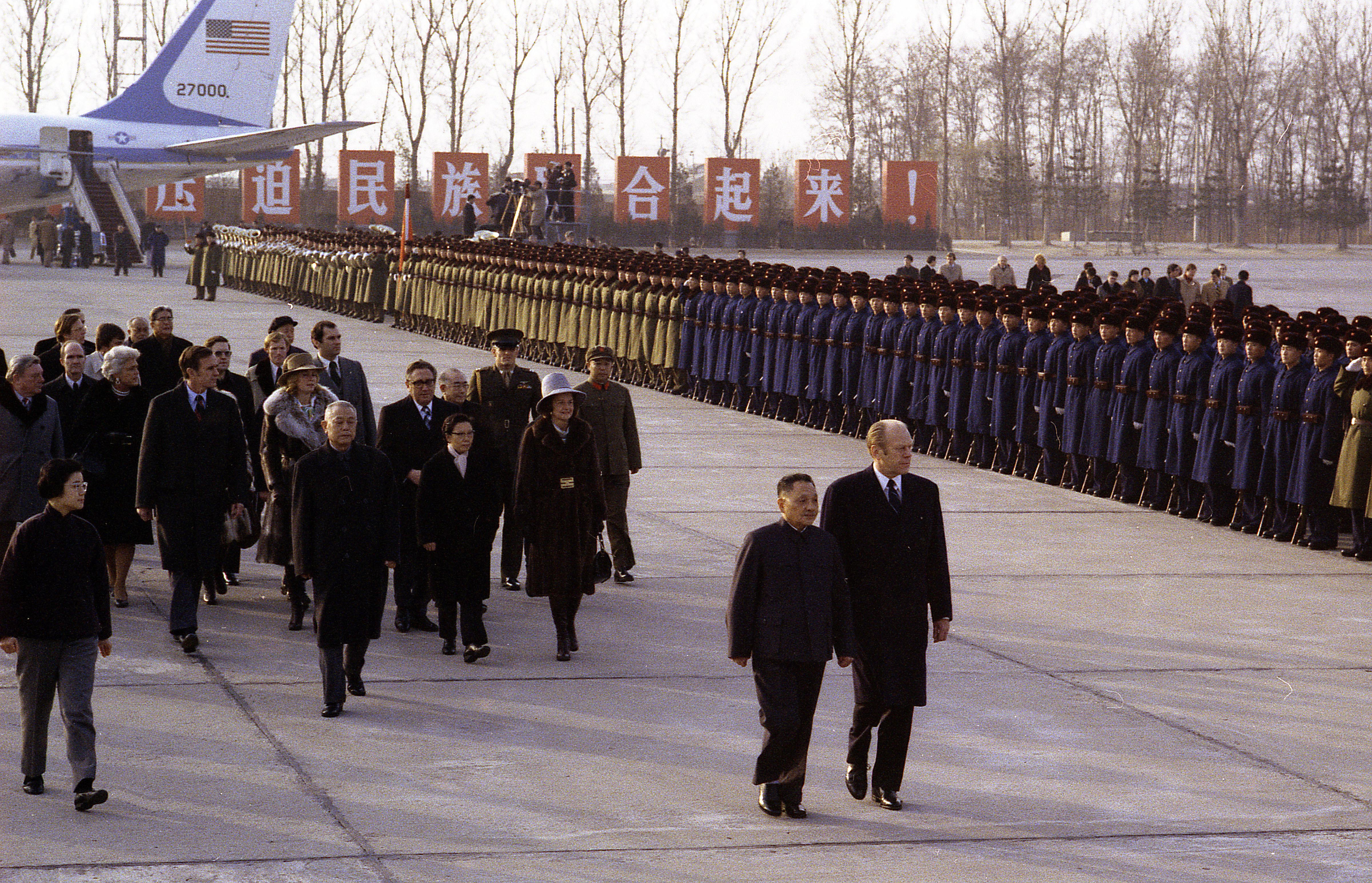 Escorted by Deng Xiaoping, President Gerald Ford inspects the honor guard upon his arrival in China with his entourage, which included Mrs. Ford and Secretary of State Henry Kissinger.